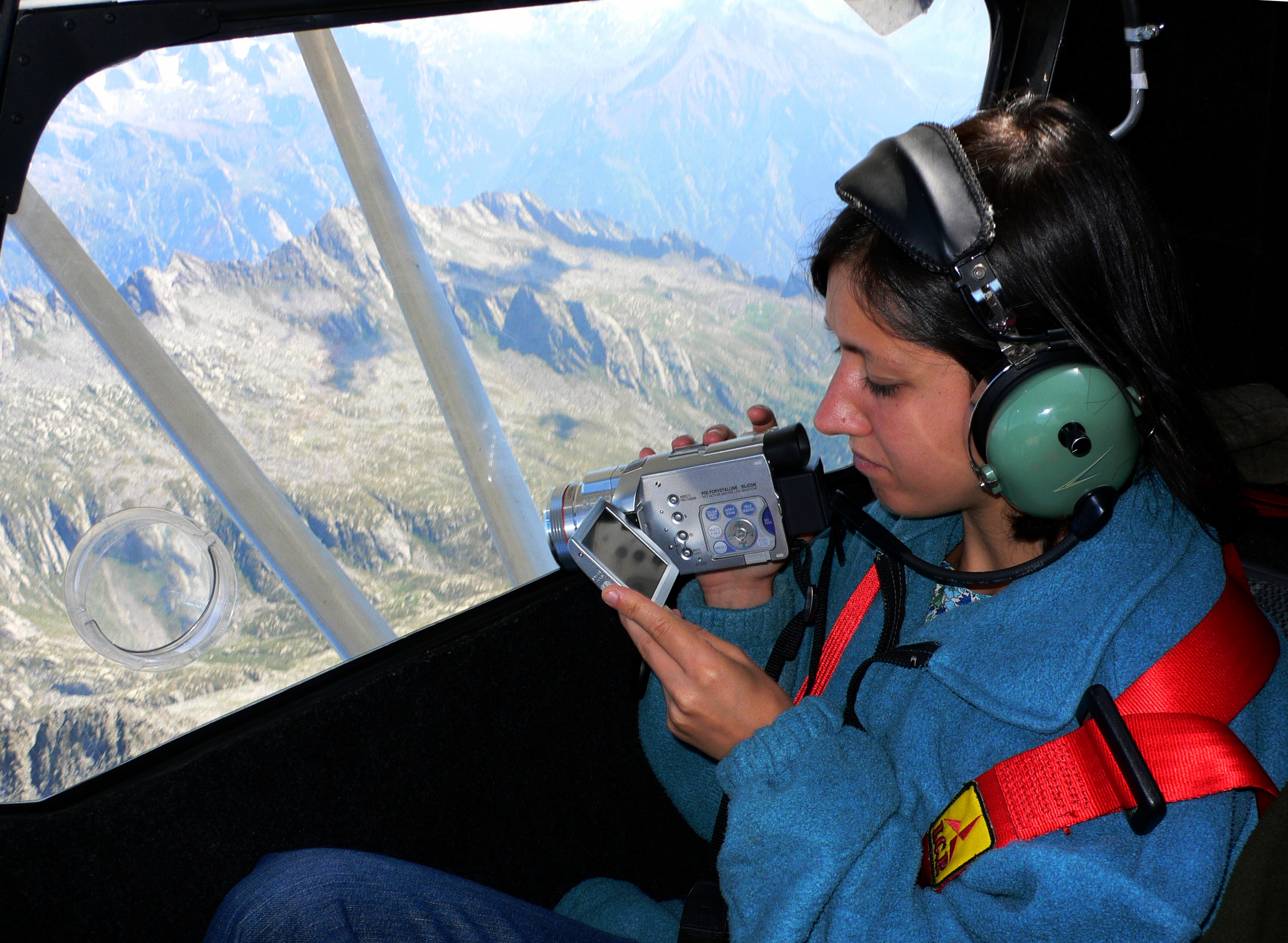 Lavoro preparatorio per l'opera Dai tempo al tempo.